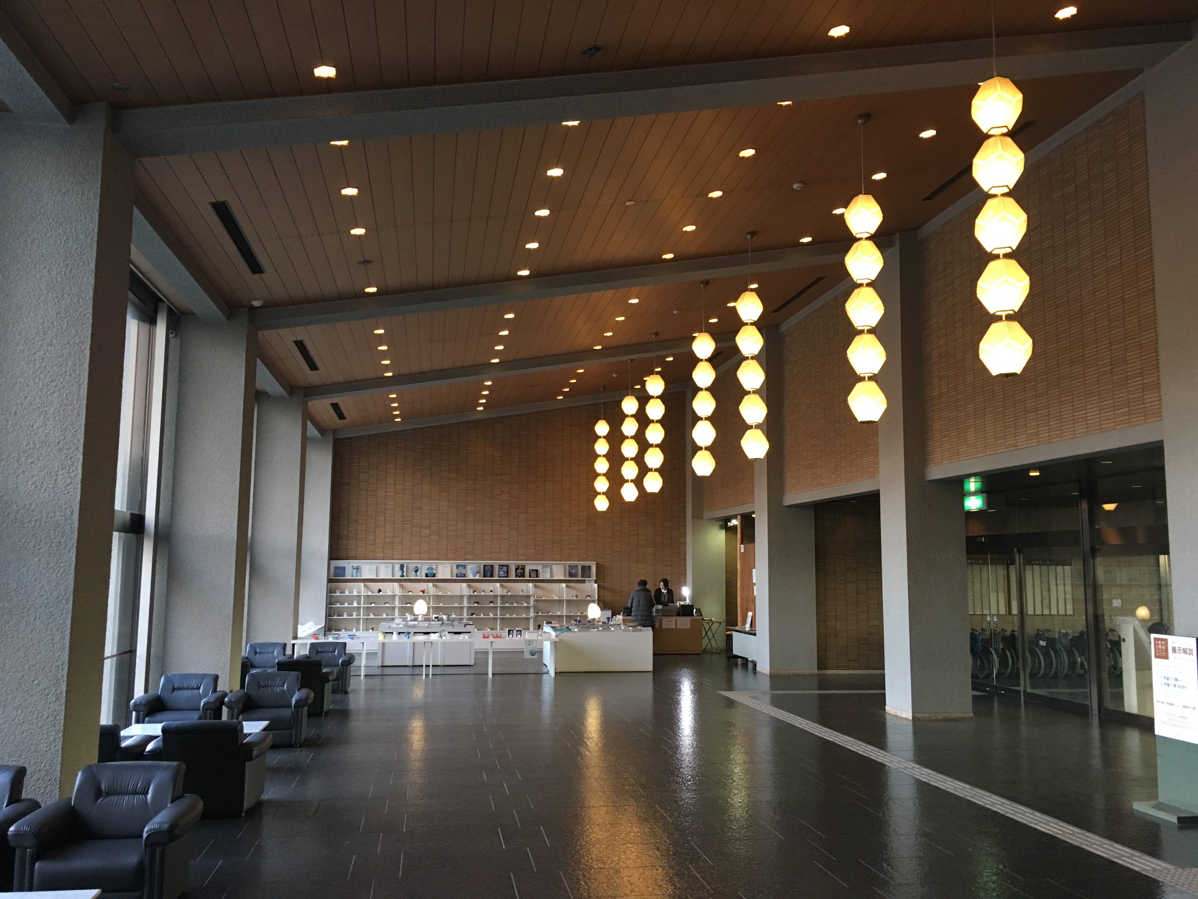 Lobby with museum shop of the Aichi Prefectural Ceramic Museum